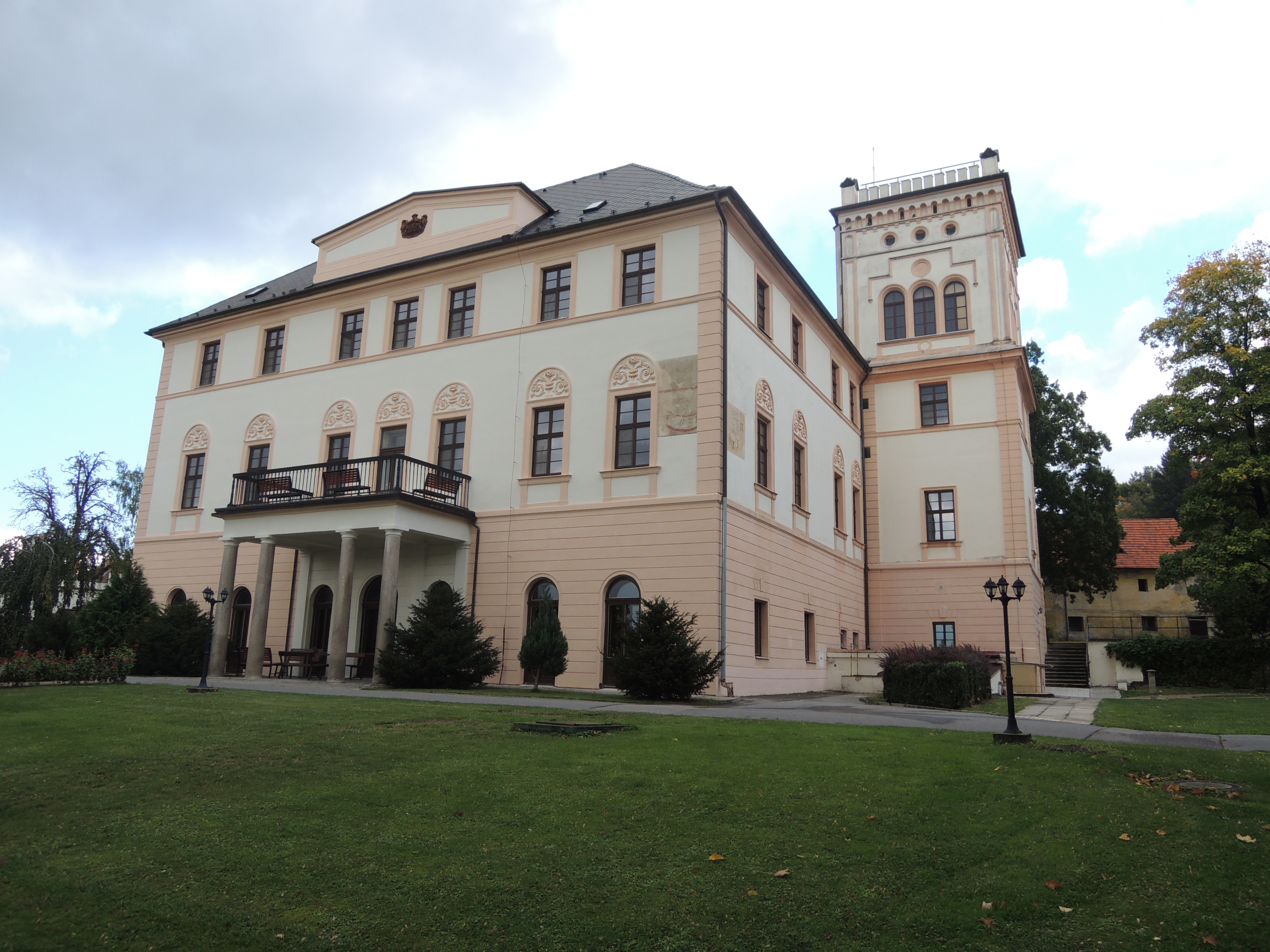 Castle in Pyšely a town i Benešov District, Czech Republic.